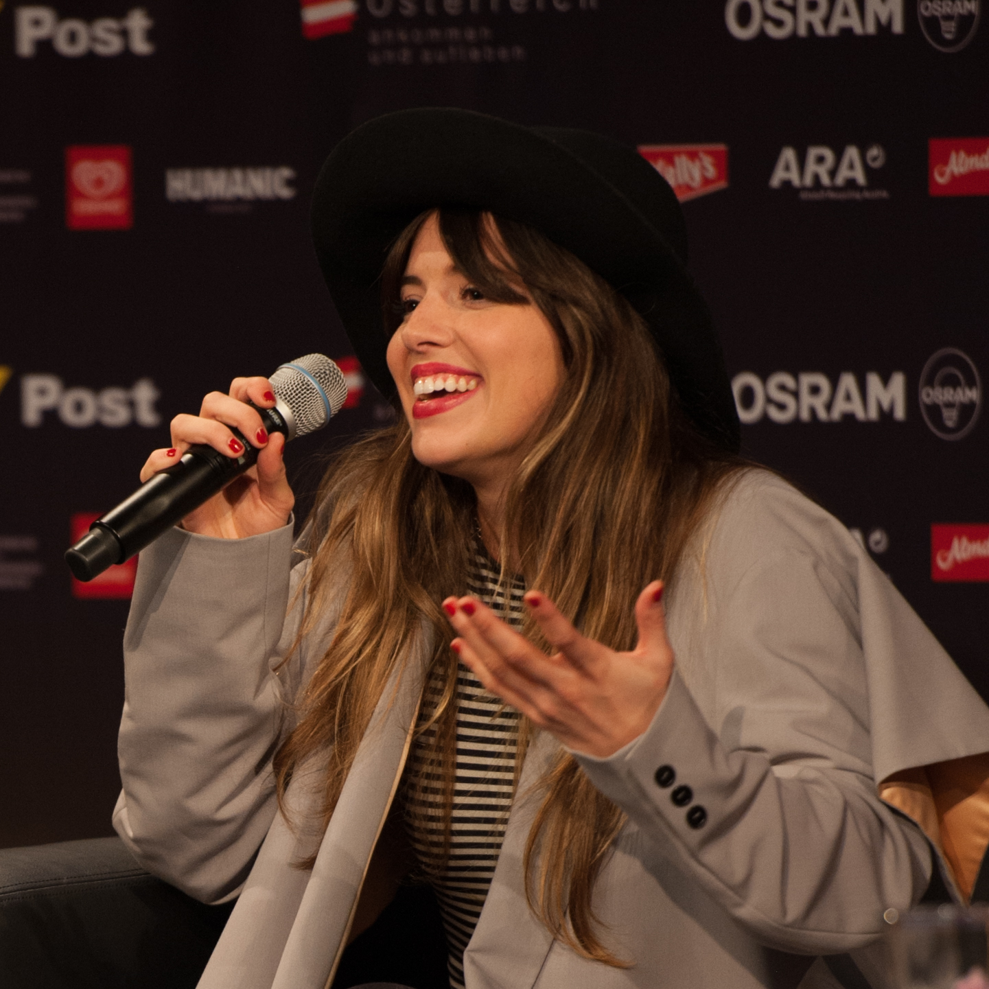 Eurovision Song Contest Vienna 2015: Leonor Andrade